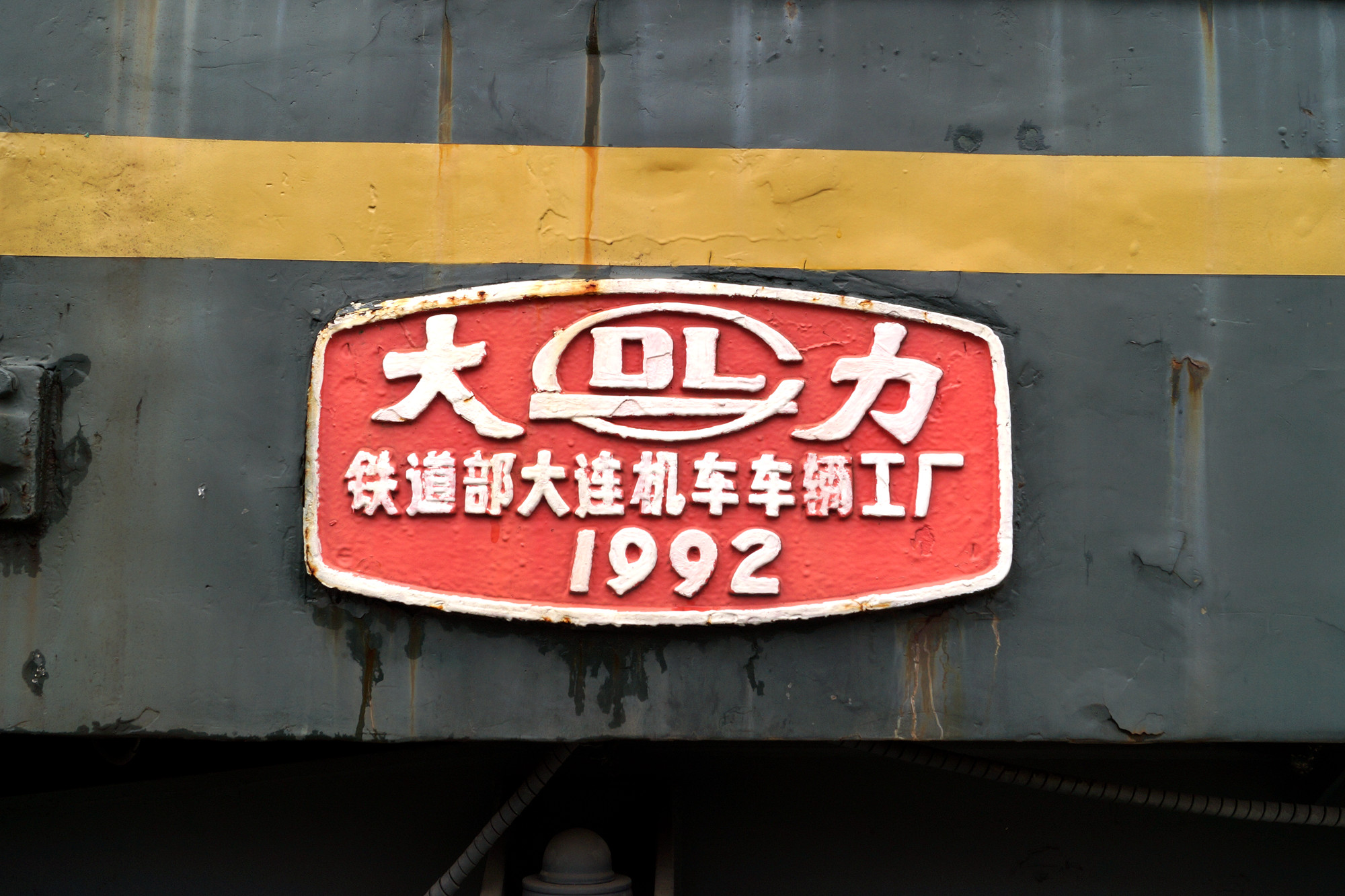 The manufacturing plate of China Railways DF4B 7019 diesel locomotive, showing "Powerful" （大力）trademark of Dalian Locomotive and Rolling Stock Works.